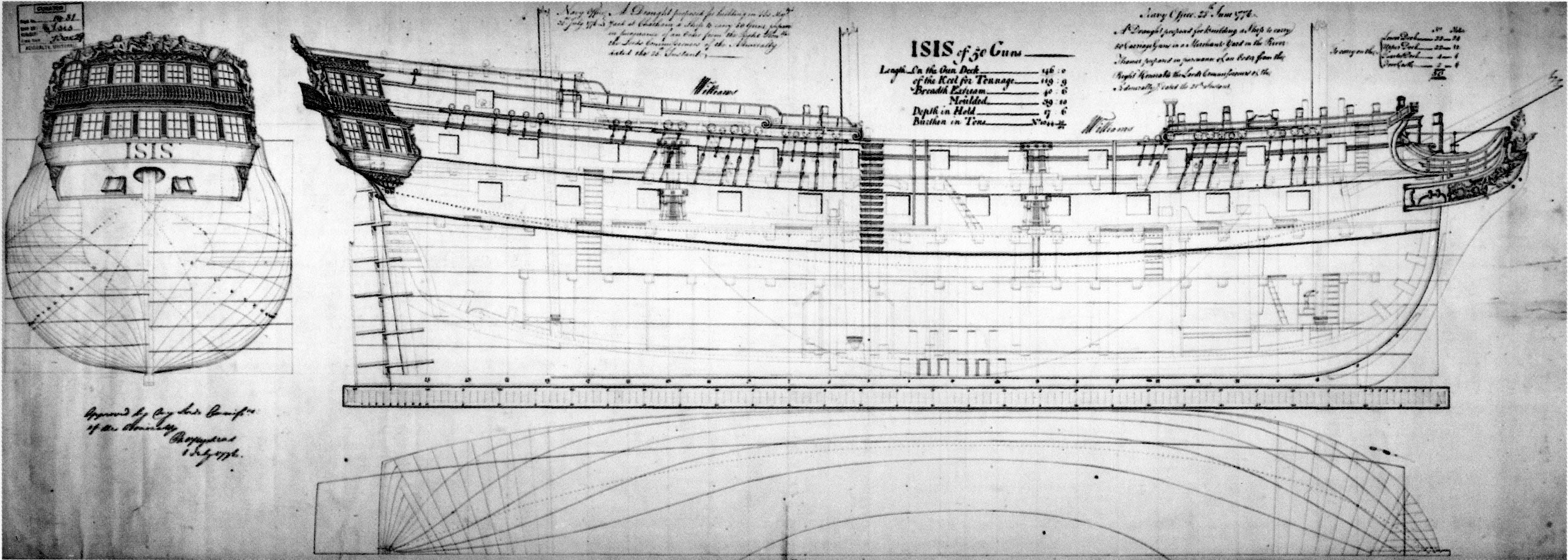 Isis (1774); Jupiter (1778); Leander (1780) Scale: 1:48. Plan showing the body plan with stern decoration and name on the counter, sheer lines with inboard profile and figurehead, and longitudinal half-breadth for Isis (1774), a 50-gun Fourth Rate, two-decker, as completed at Chatham Dockyard. The plan was later proposed (and approved) for building Jupiter (1778) and Leander (1780). Signed by John William [Surveyor of the Navy, 1767-1784]. ISIS 1774